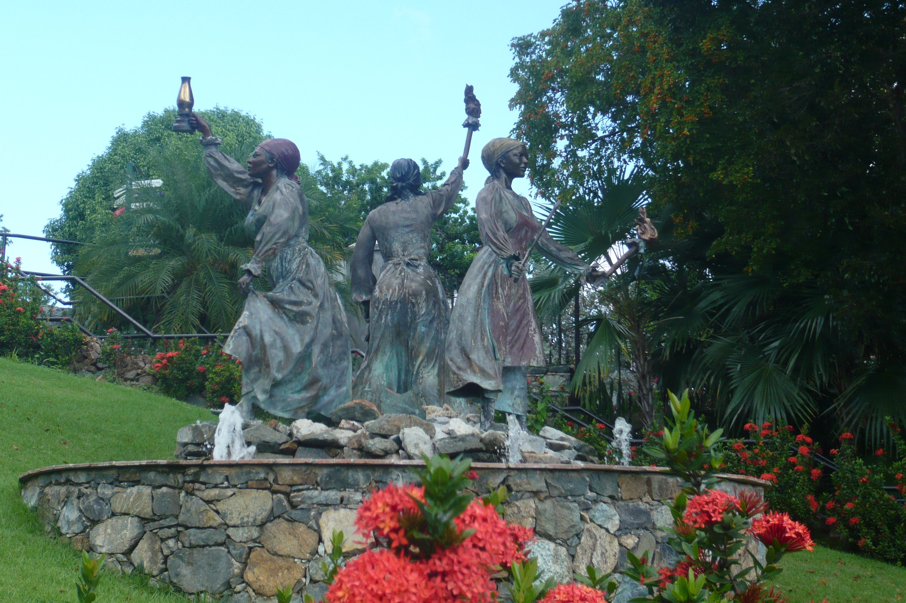 Three Queens Fountain, Blackbeard's Castle, Charlotte Amalie, St. Thomas, USVI, Jan 2010.